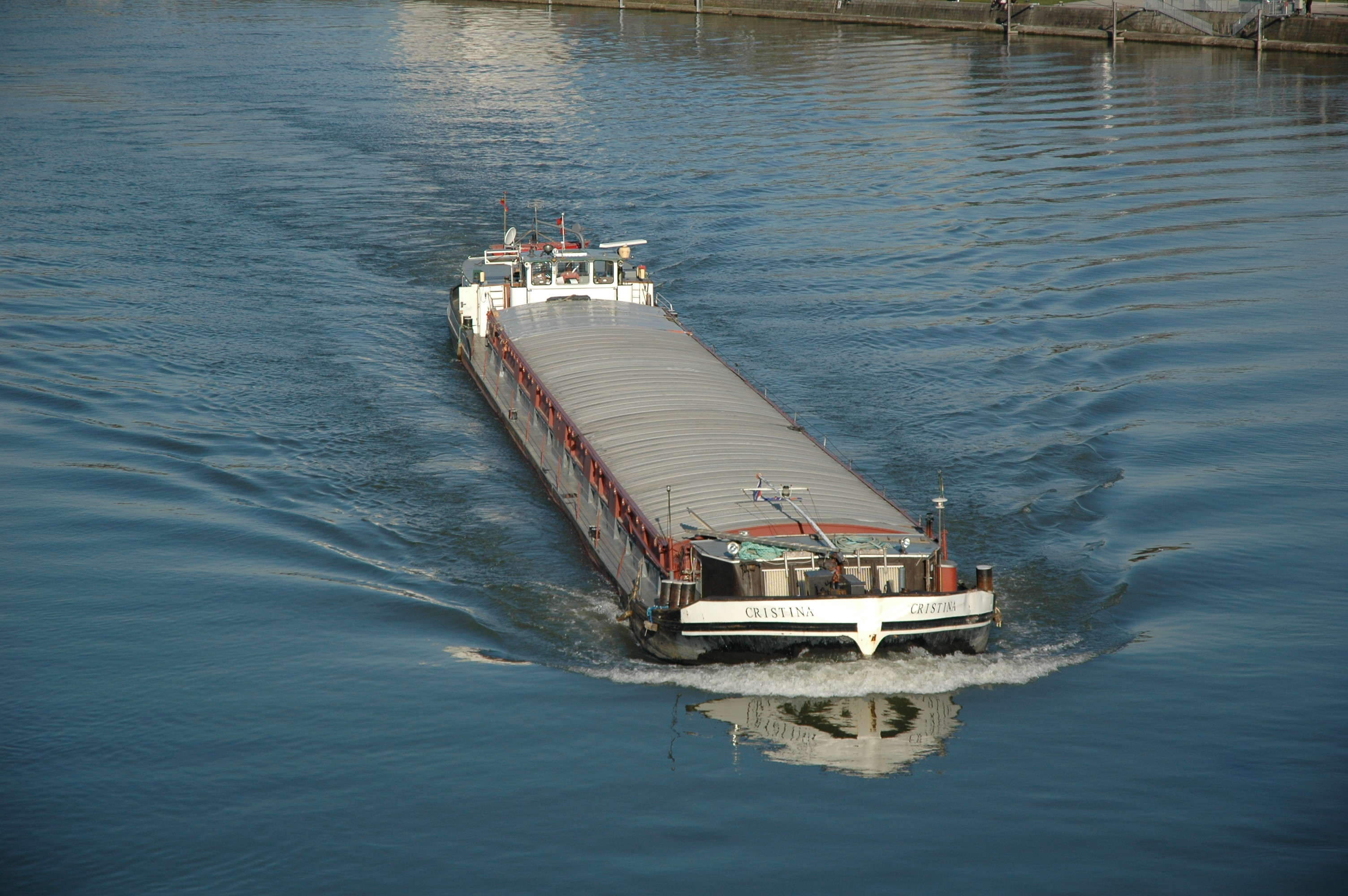 Bulk carrier for inland navigation on the Danube river in Linz, Austria.